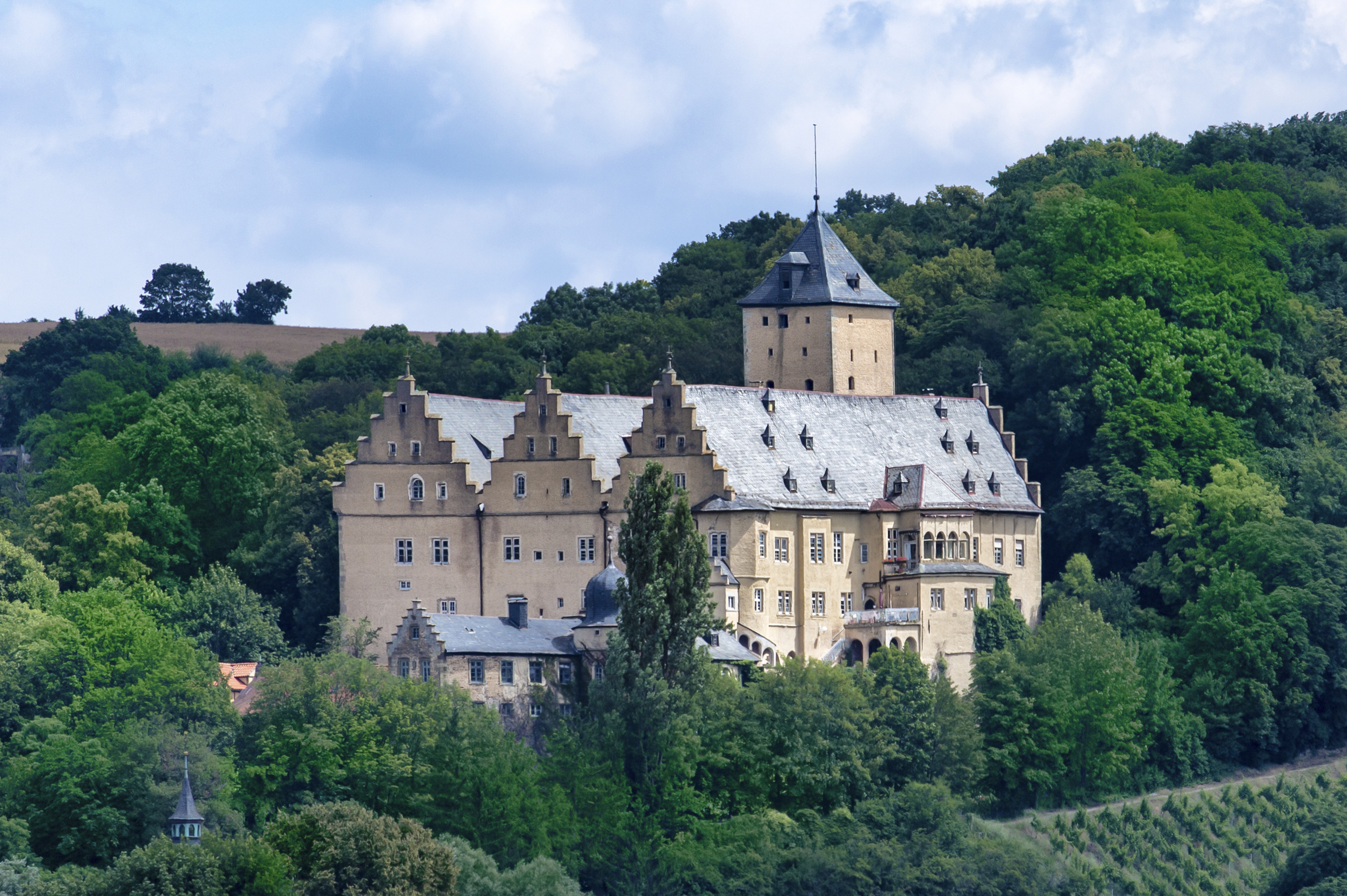 This is a photograph of an architectural monument.